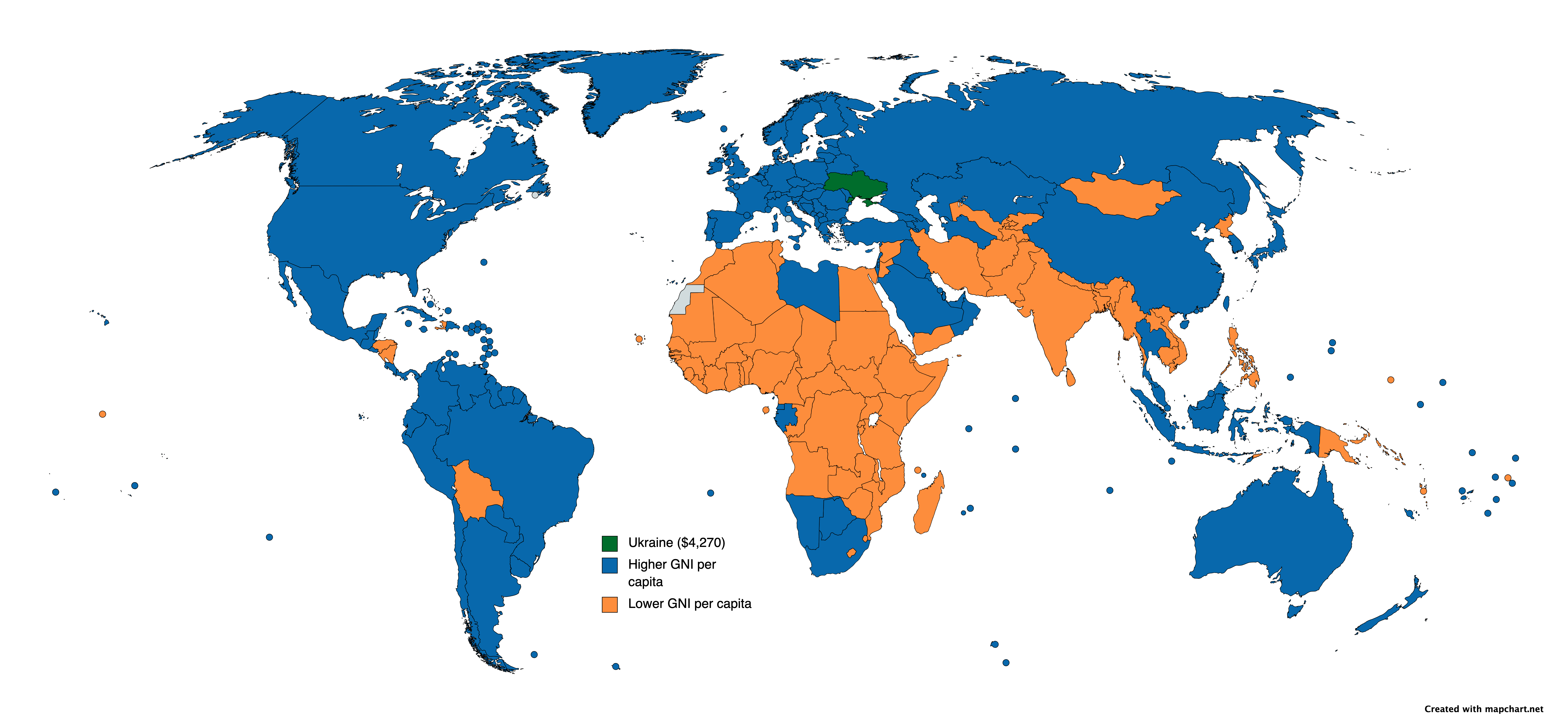 Map of World by GNI per capita compared to Ukrainian.